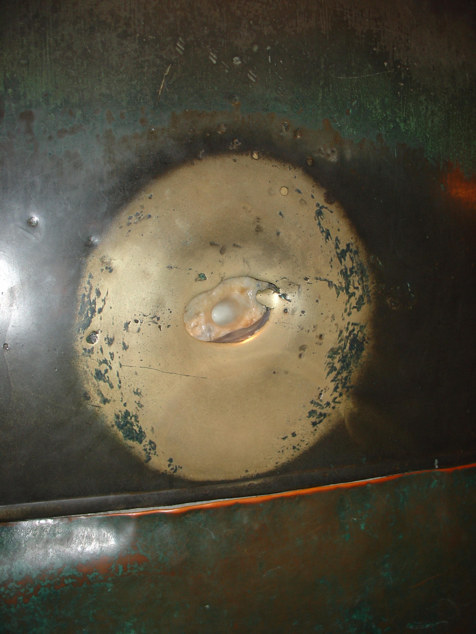 Stele of St Gregory Thaumaturgus at Agia Sofia, Istanbul . It is ascribed with miraculous powers.